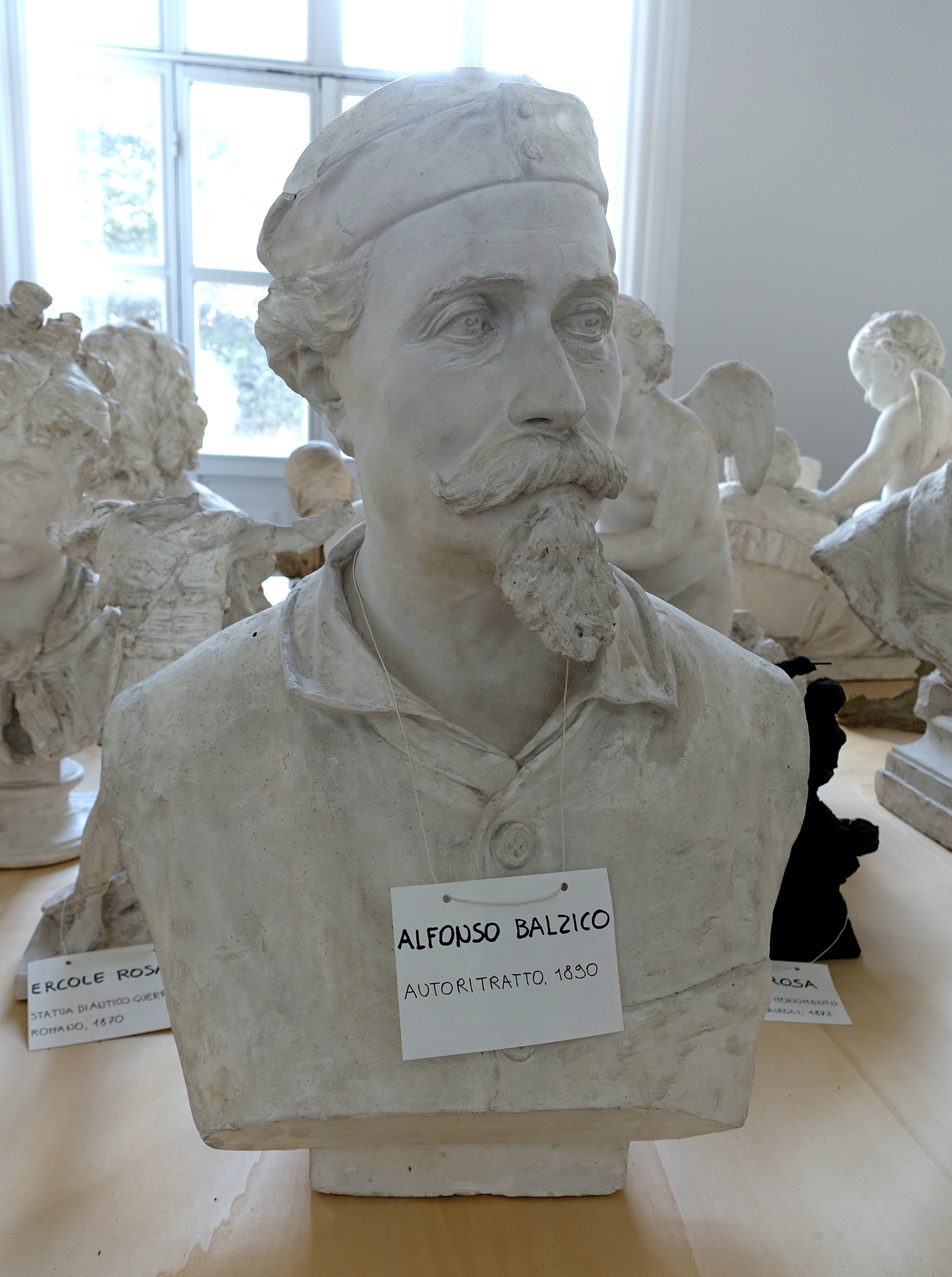 Exhibit in the Galleria nazionale d'arte moderna - Rome, Italy.